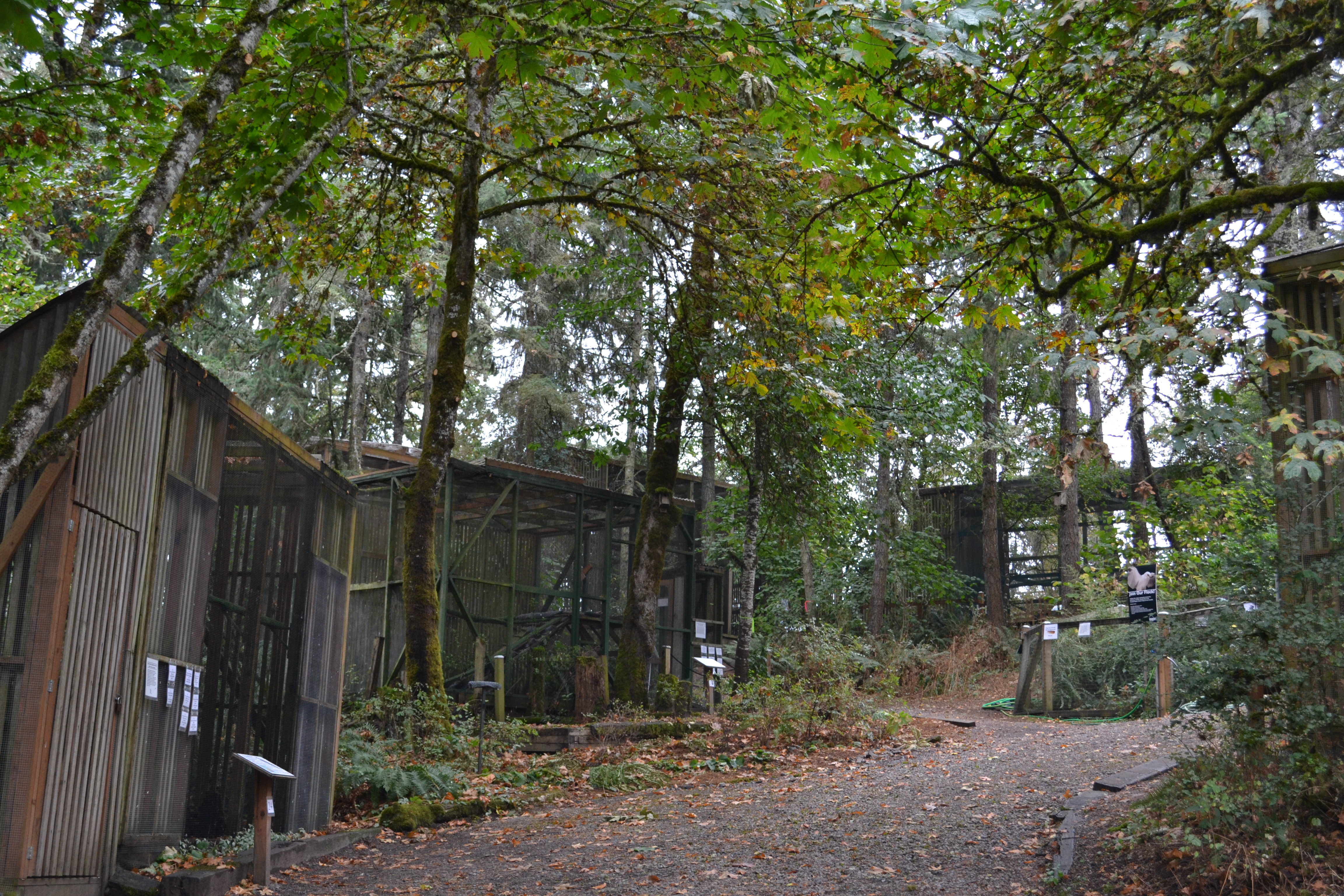 Cascade Raptor Center (Eugene, Oregon)